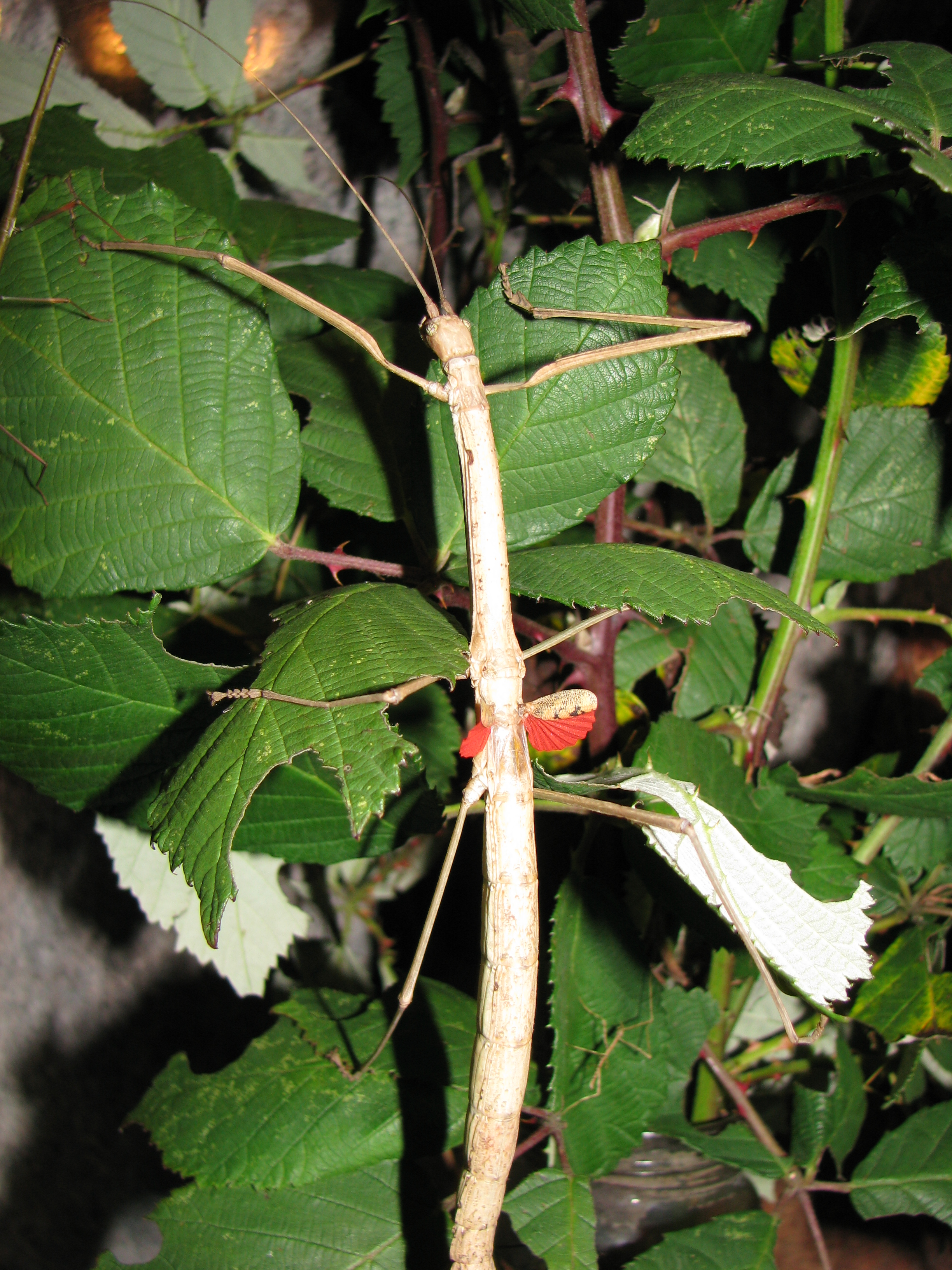 with open wings threaten female of Khao Stick Insect (Phaenopharos khaoyaiensis)